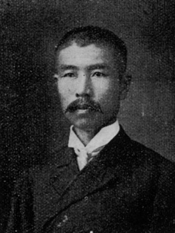 Mr. Otohiko Hasegawa, professor of the Hiroshima Higher Normal School.